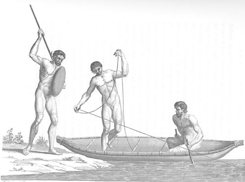 An illustration from The Voyage of Governor Phillip to Botany Bay Original caption: Natives of Botany Bay